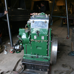 Nation DA2 engine prior to installation in working narrow boat Hadar.